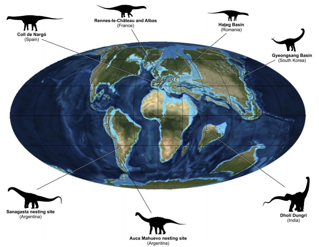 Late Cretaceous paleogeography and distribution of titanosaur nesting sites Page 4 of: Hechenleitner, E. Martín (2015). "What do giant titanosaur dinosaurs and modern Australasian megapodes have in common?". PeerJ 3:e1341: 1–32. Retrieved on 2018-05-24.